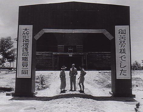 Otake Repatriates Relief Bureau